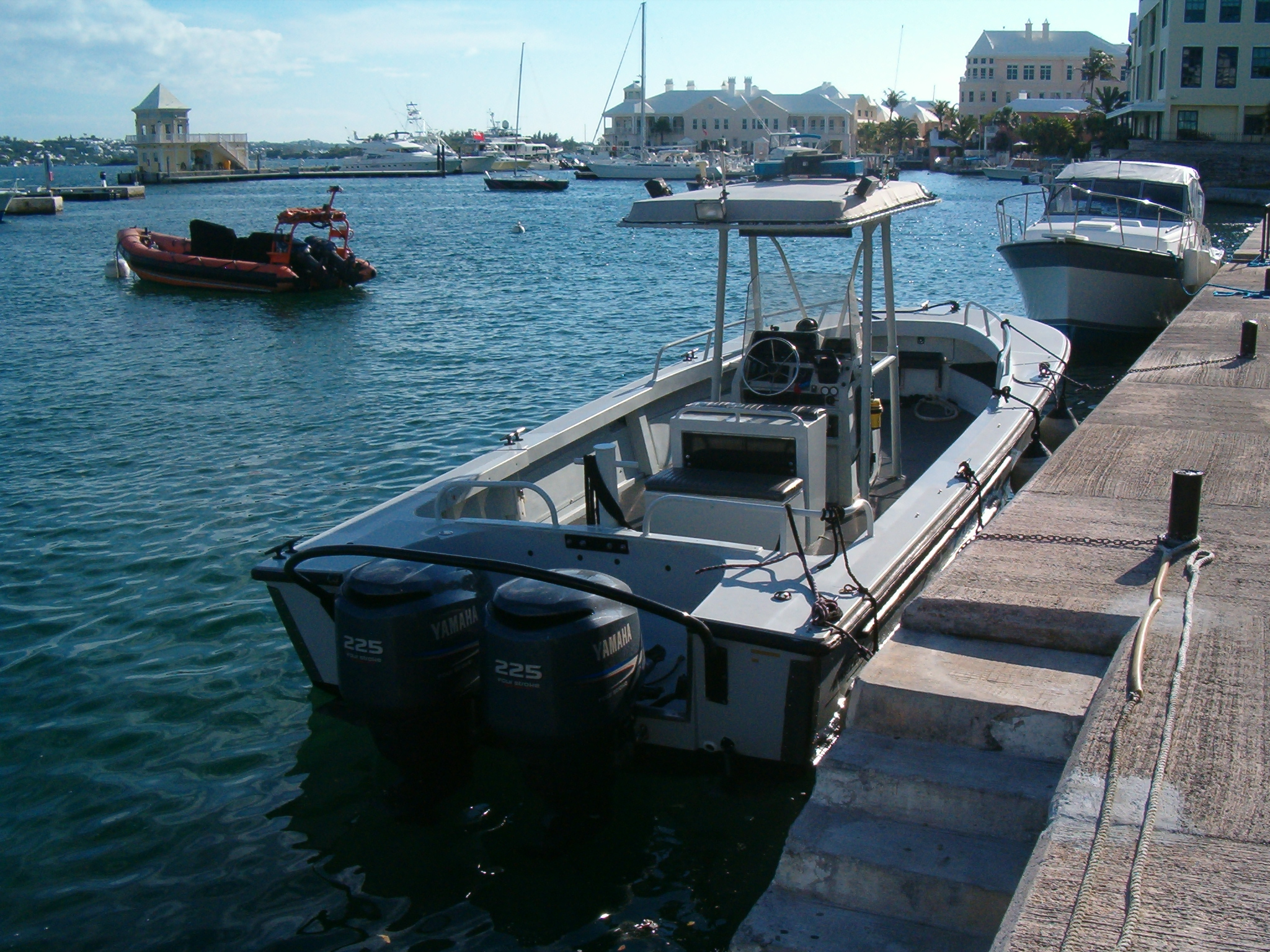 A Boston Whaler and a semi-rigid rescue boat of the Marine Section of the Bermuda Police Service at Barr's Bay, in Hamilton, Bermuda.